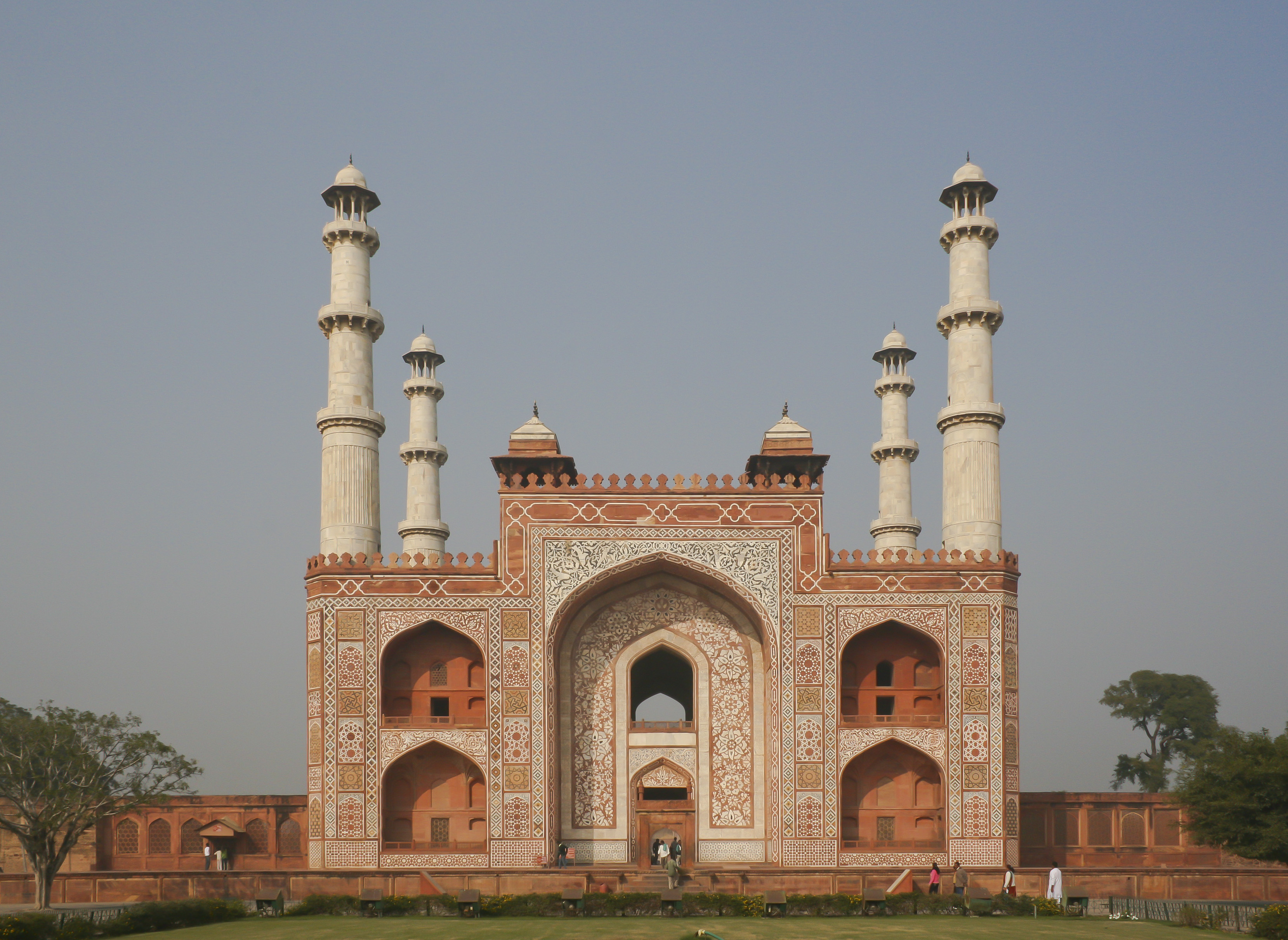 Akbar's Tomb, Sikandra, near Agra, India